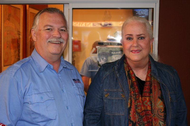 Singer/artist Grace Slick With Phil Konstantin